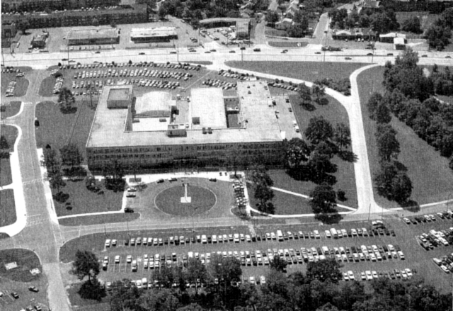 Naval Investigative Service Headquarters, Suitland, MD.